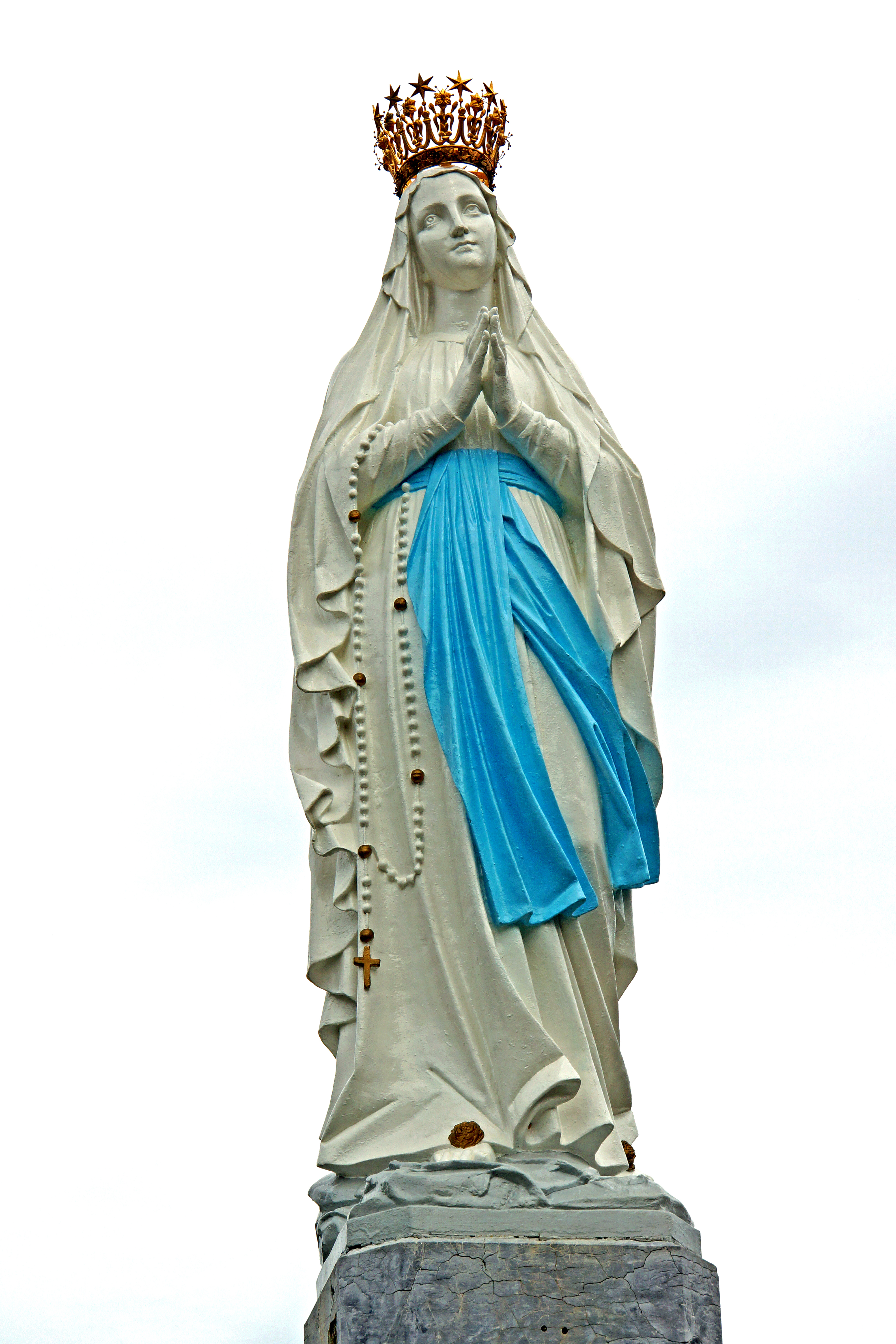 PLEASE, NO invitations or self promotions, THEY WILL BE DELETED. My photos are FREE to use, just give me credit and it would be nice if you let me know, thanks. Statue of the Crowned Virgin, this prominent statue is a familiar landmark and a traditional meeting point. The statue is 2.5m (8.2ft) high and cast in bronze, painted white and blue in the traditional colours. Her rosary is of the Birgittine style and incorporates six decades. Now to the part of the site that started it all...............